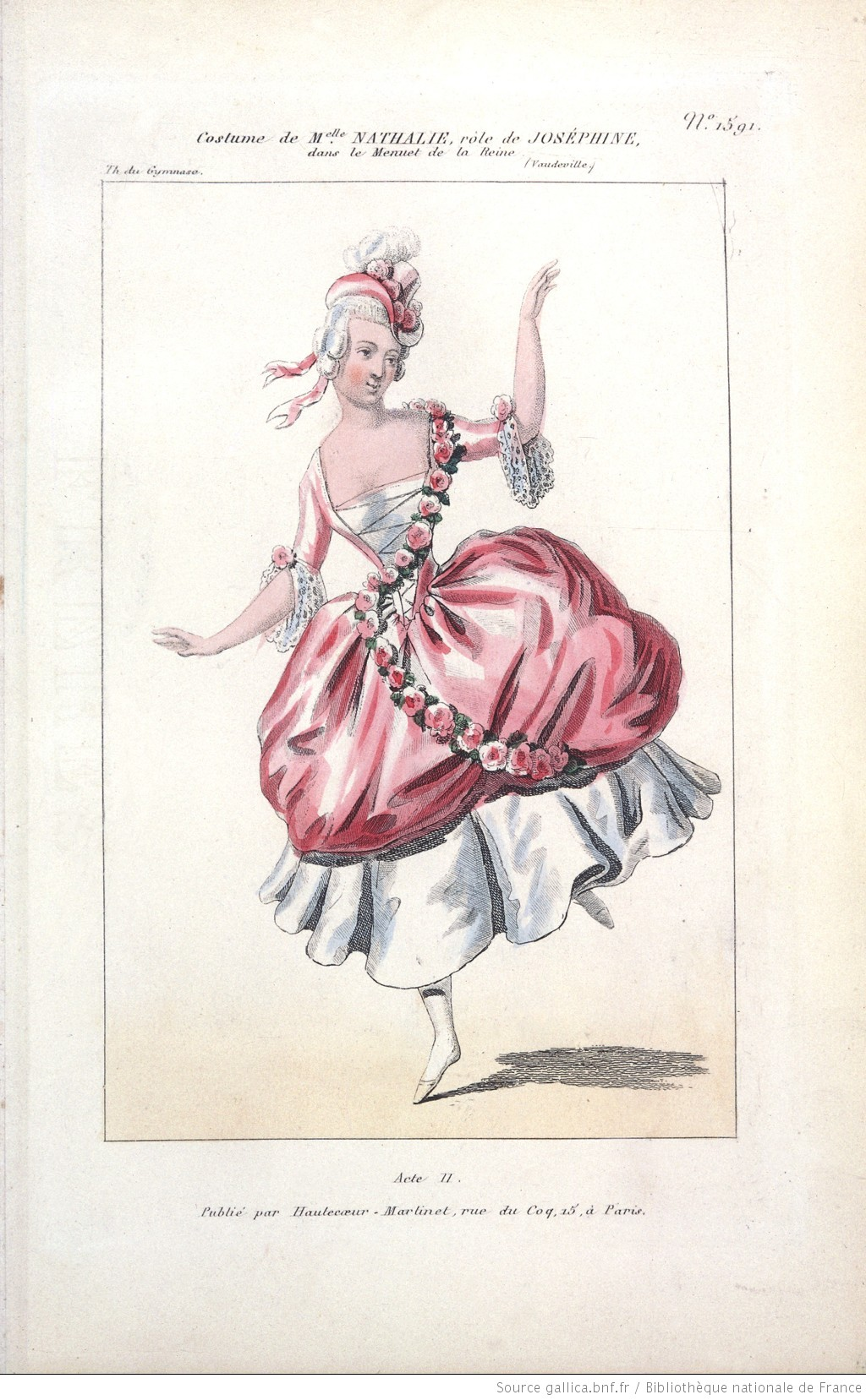 Le menuet de la Reine, a comedy by Narcisse Fournier : costume of Nathalie (Joséphine)